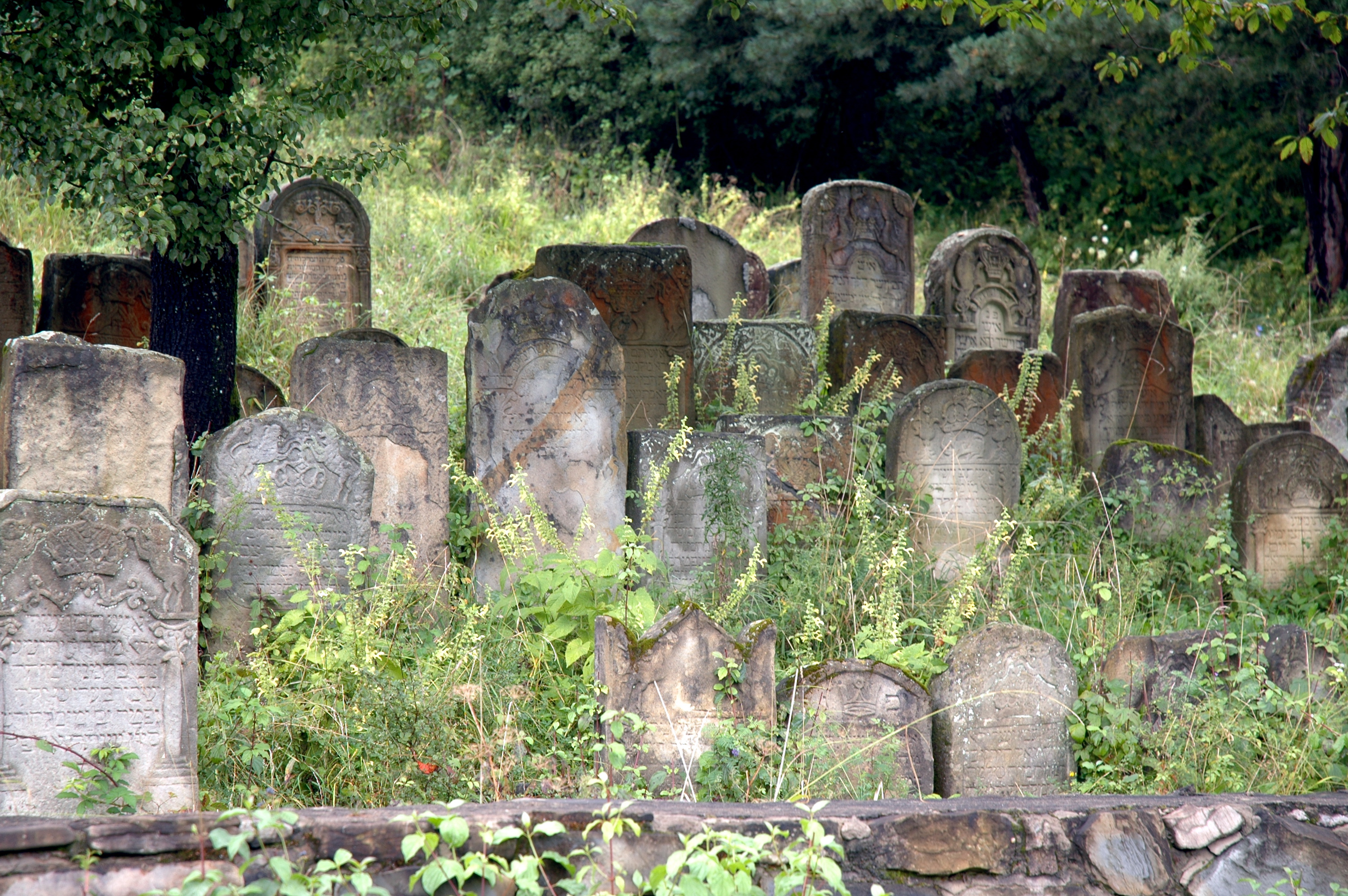 Jewish cemetery in Staryi Sambir (L'vivska oblast, Ukraine)